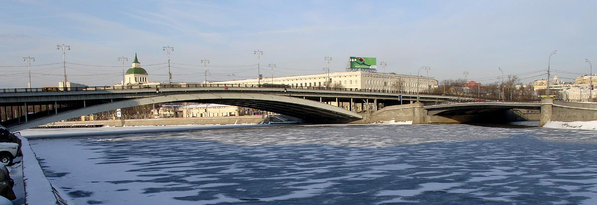 Bolshoy Ustinsky Bridge (left), Maly Ustinsky Bridge (right), Moscow, Russia.